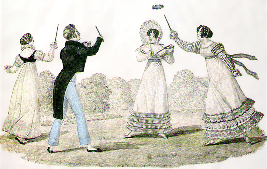 Plate no. 110 from Le Bon Genre, first published in 1817. Original upload caption: Three women and a man playing an inverse ringtoss or "quoits" game during the second half of the 1810s. (This is said to be a fashion plate published 1815, but could possibly be from a few years later, judging by some of the fussy details on the clothes of the two women at right.)